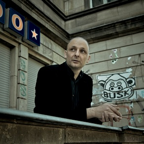 Christophe Bourdoiseau